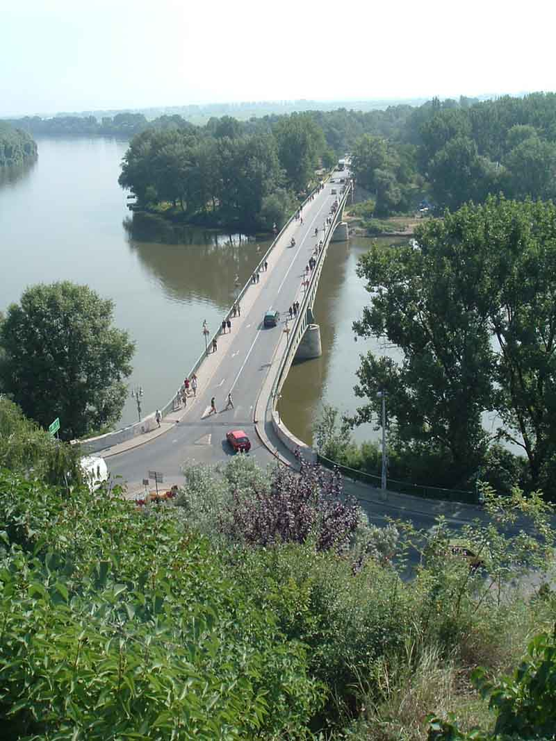 The bridge on the River Tisza, Tokaj, Hungary